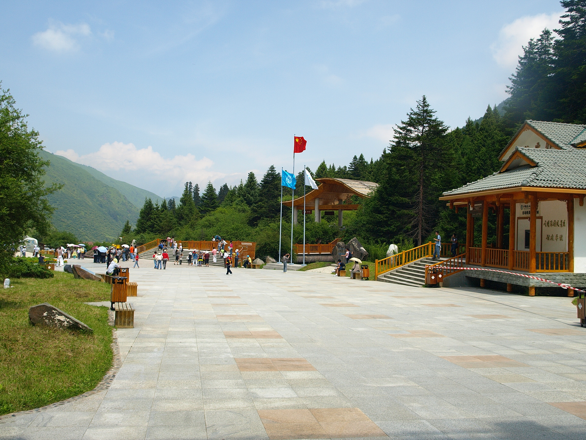 Entrance of Huanglong, Sichuan, China.